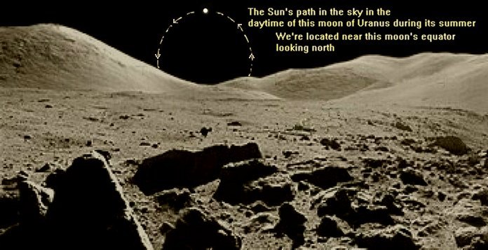 Artist conception of the Sun's path in the sky of a major moon of Uranus